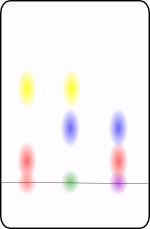 Drawn by Theresa knott 10:37, 18 May 2006 (UTC)